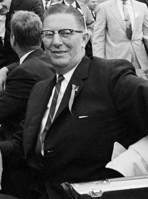 President John F. Kennedy tours the power plant of the Oahe Dam and Reservoir during the dam's dedication ceremony, on the banks of the Missouri River, near Pierre, South Dakota. President Kennedy (back to camera) speaks with U.S. Senatorial candidate from South Dakota, George McGovern, from the back seat of the presidential limousine; Governor of South Dakota, Archie M. Gubbrud, sits right of President Kennedy. Also pictured: Representative Byron G. Rogers (Colorado); White House Secret Service agents, John Campion and Walt Coughlin.